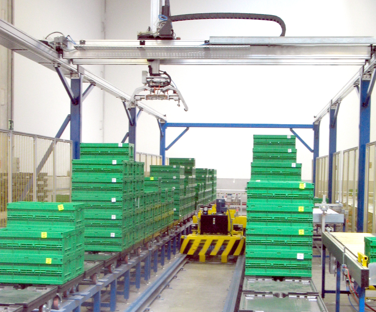 Gantry robot tecno-840